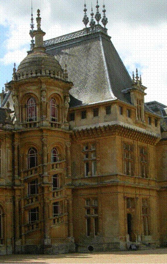 Stair tower at Waddesdon Manor.